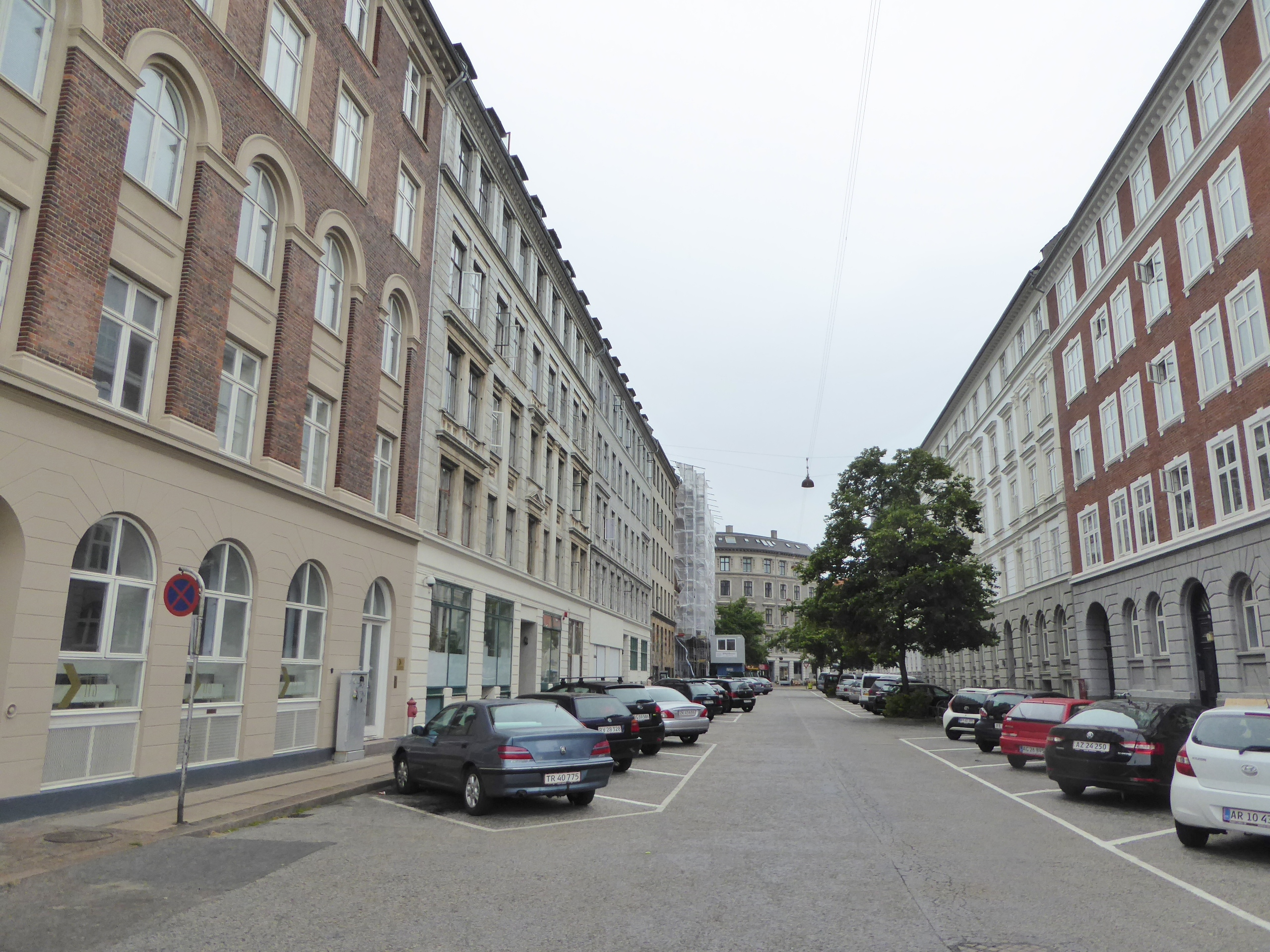 The street Cort Adelers Gade in Indre By in Copenhagen.